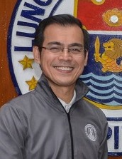 The Manila City government on Tuesday, September 3, turned over financial assistance to student-athletes of the nation’s capital who participated in the Batang Pinoy finals in Puerto Princesa, Palawan. This is the first time that the local government had turned over assistance to these young representatives of the City of Manila. Manila City Mayor Francisco “Isko Moreno” Domagoso and Miss Universe Philippines Gazini Ganados led the turnover at the Bulwagang Katipunan. On the same day, Ganados also paid a courtesy call on the Manila City Mayor.